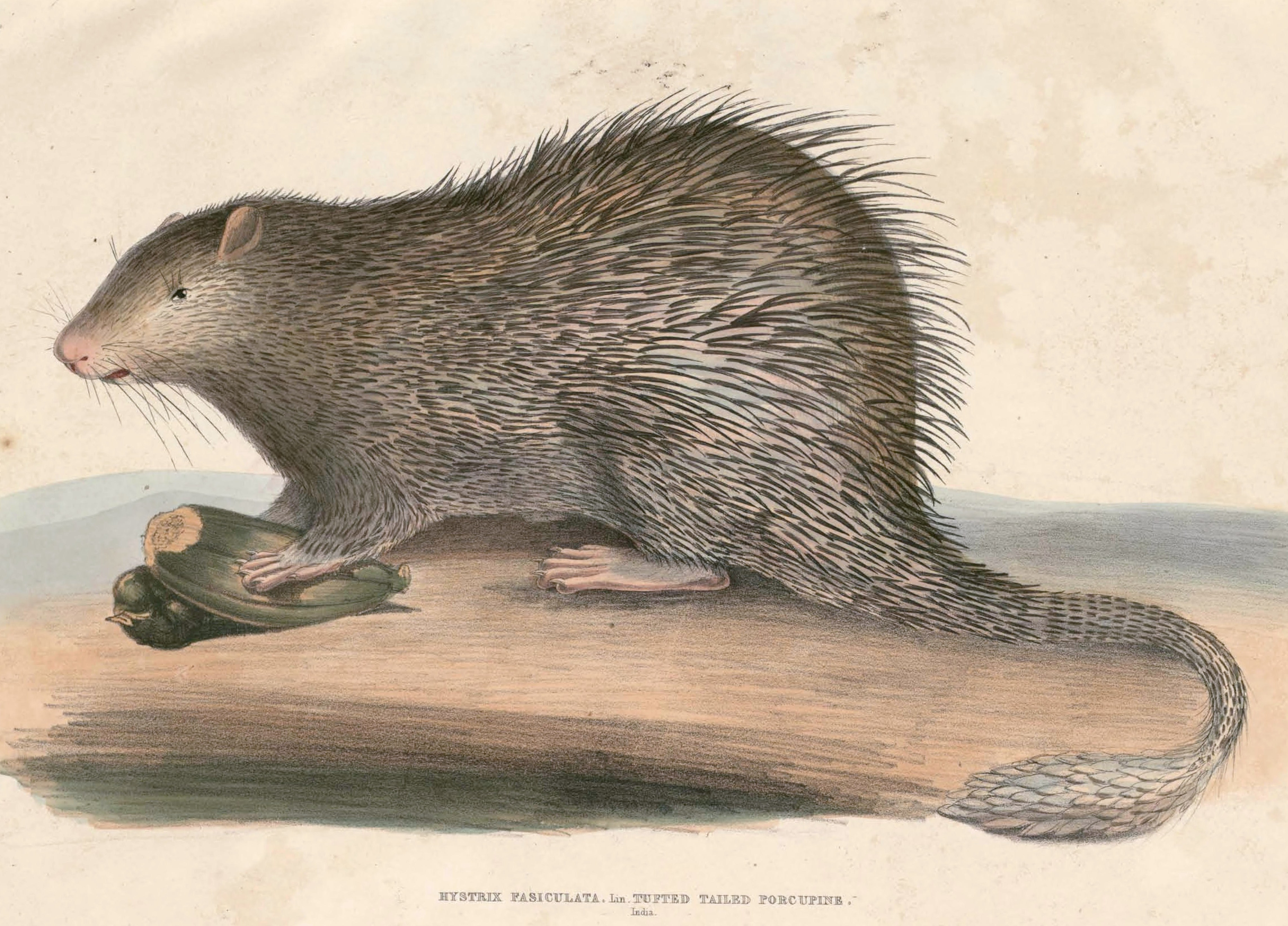 « Hystrix fasciculata » = Trichys fasciculata (Long-tailed porcupine)